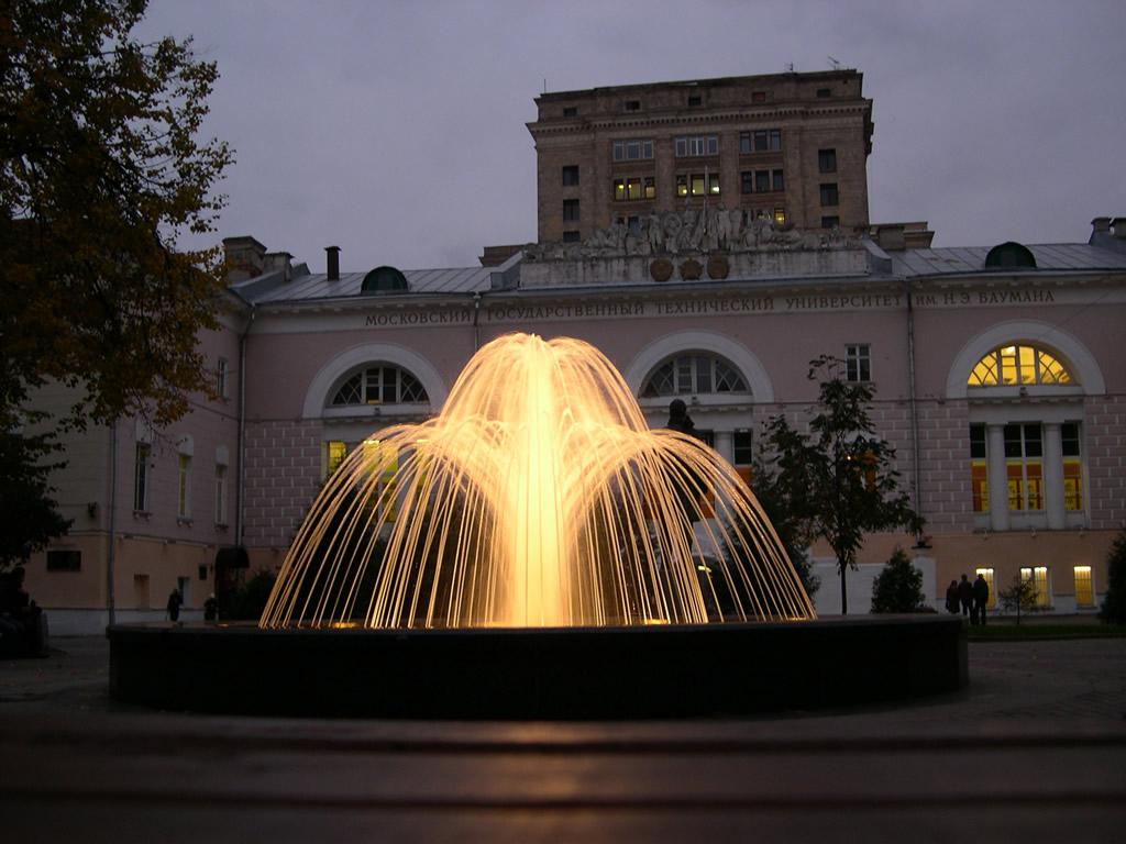 Moscow State Technical University